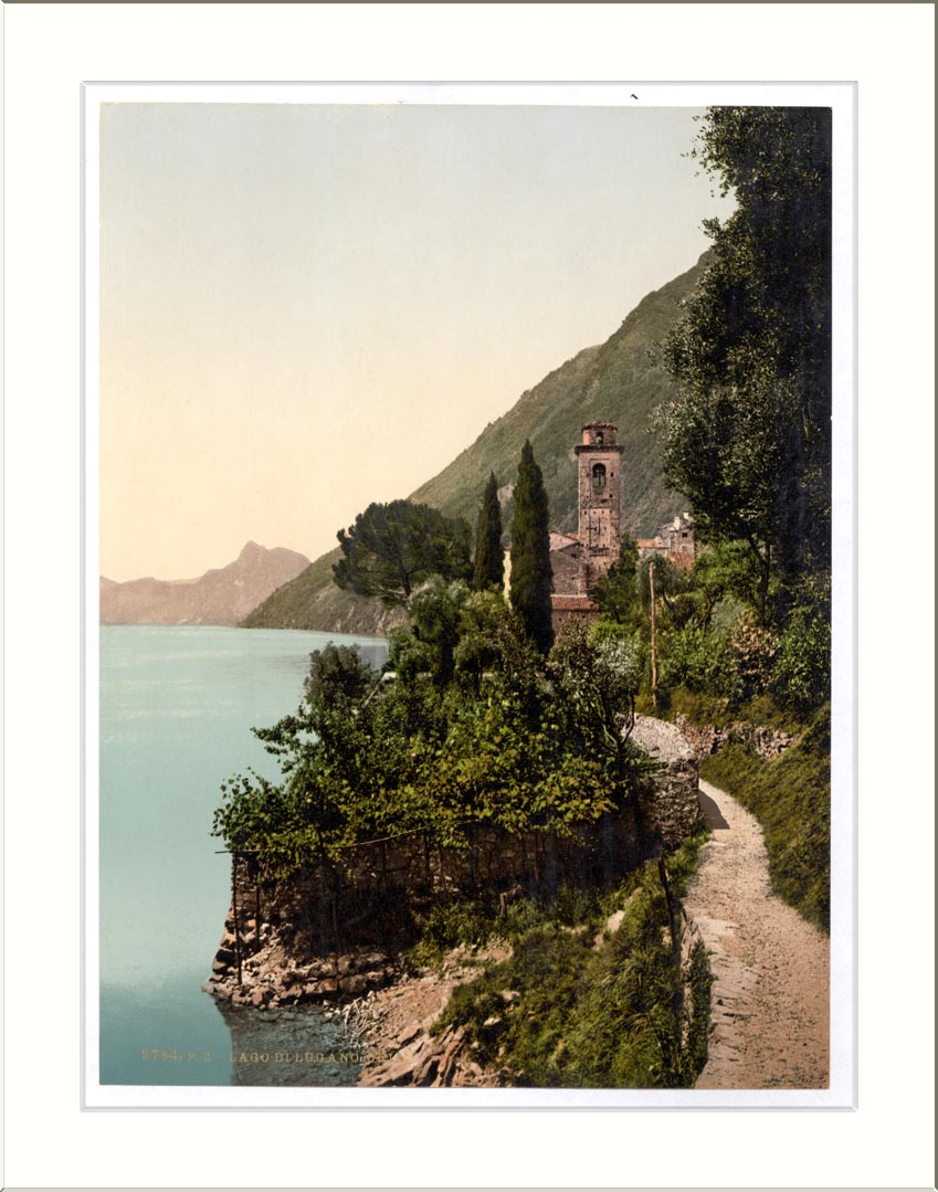 Oria on the Lake Lugano, in Italy.